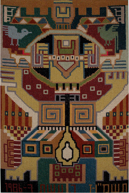 Rachel Eshet paintings